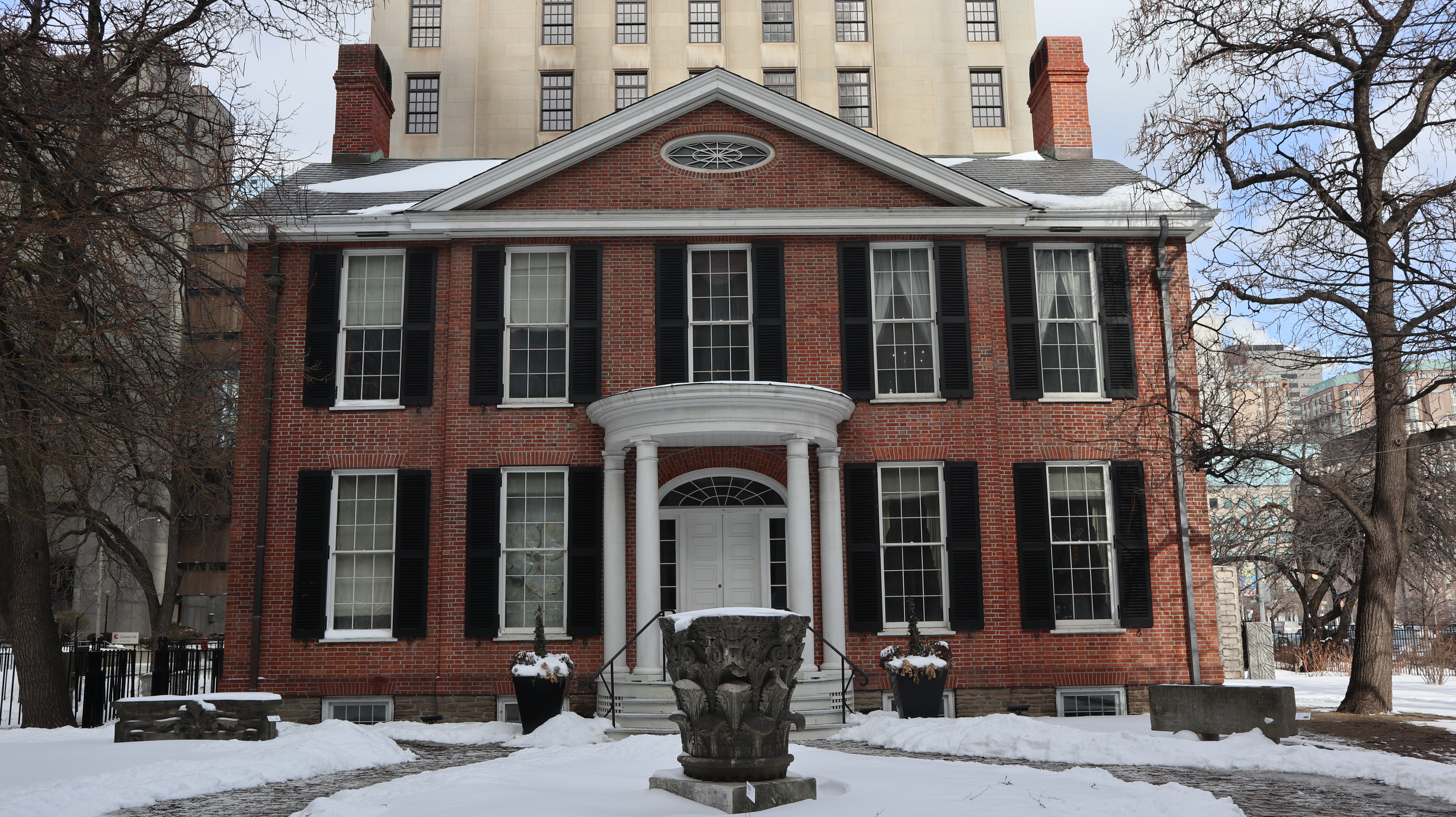 Campbell House is an 1822 heritage house and museum in downtown Toronto, Ontario, Canada. It was built for Upper Canada Chief Justice Sir William Campbell and his wife Hannah. The home was designed for entertaining and comfort, and constructed at a time when the Campbells were socially and economically established and their children had grown to adulthood. The house is one of the few remaining examples of Georgian architecture left in Toronto and is constructed in a style in vogue during the late Georgian era known as Palladian architecture (Wikipedia).